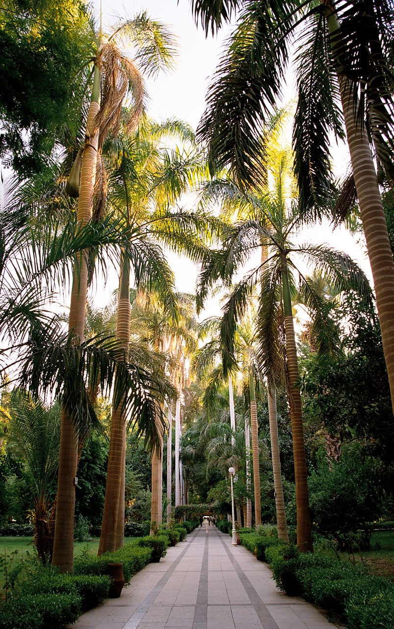 Palm tree avenue of Roystonea regia palms in the Aswan Botanical Garden on Kitchener's Island in the Nile, Aswan, Egypt.